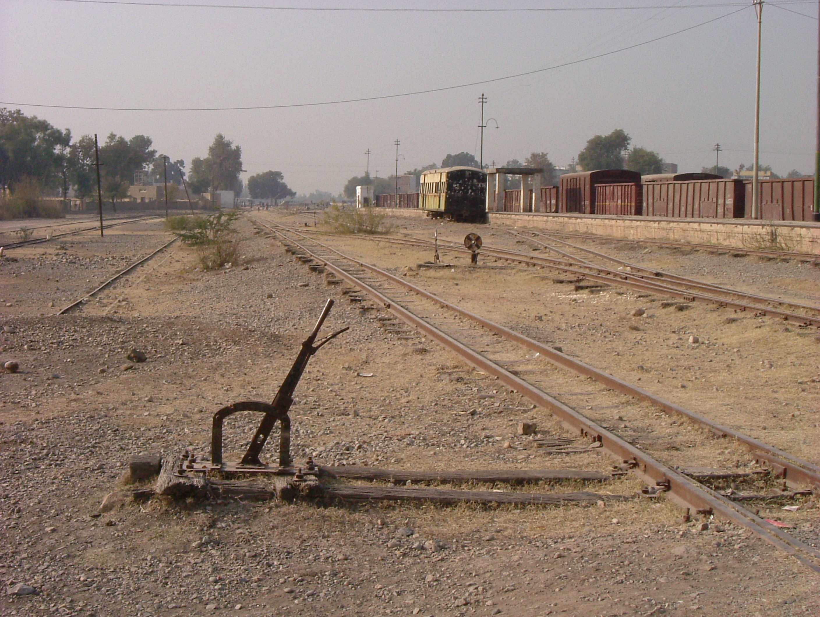 Narrow gauge railway